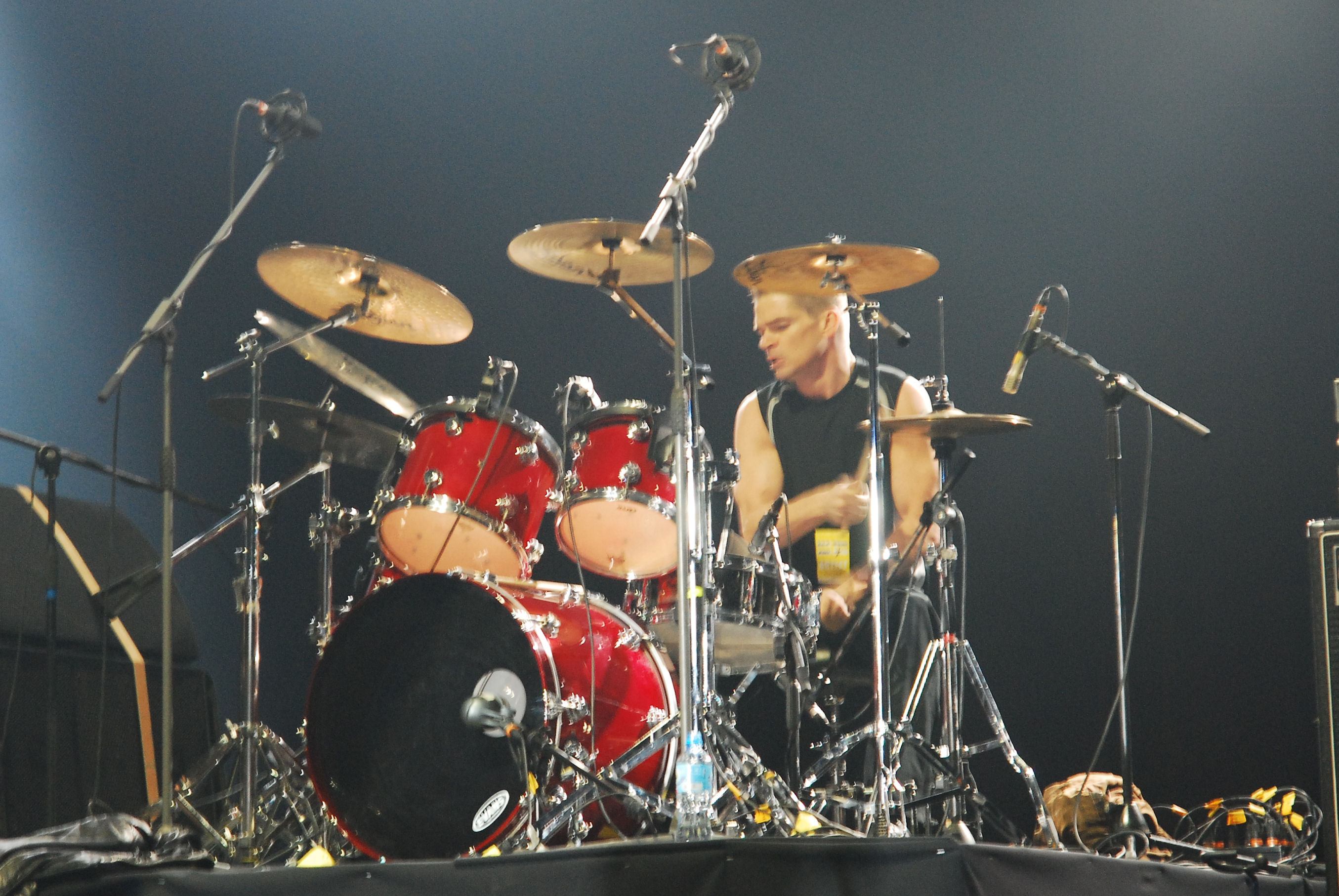 Craig_Nielsen from Flotsam&Jetsam during Metalmania 2008 festival